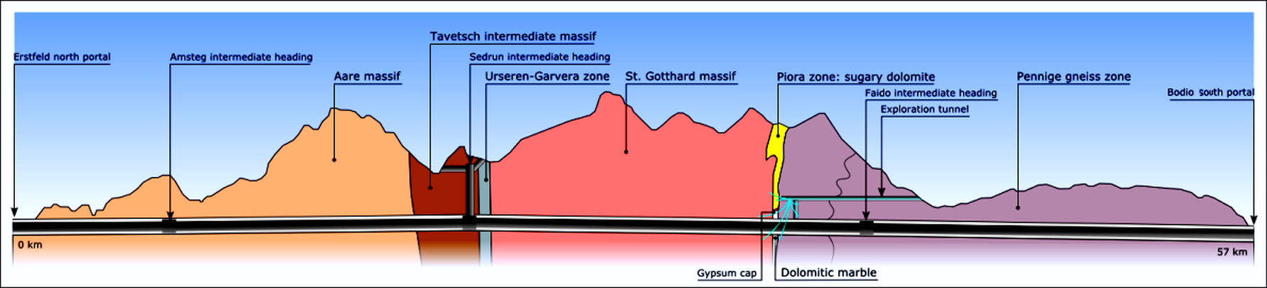 Gothard base Tunnel - geological profile